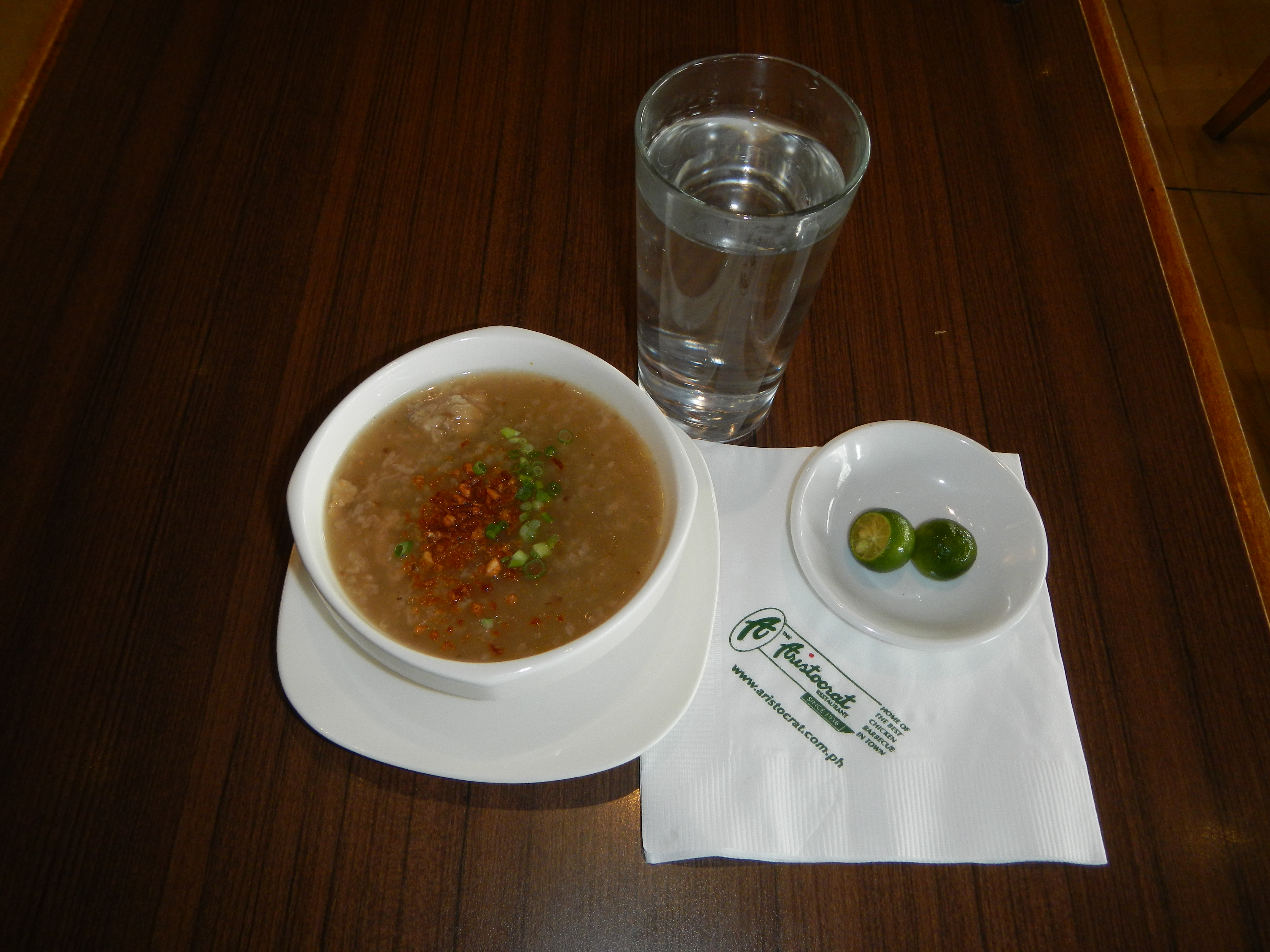 Arroz Caldo soup